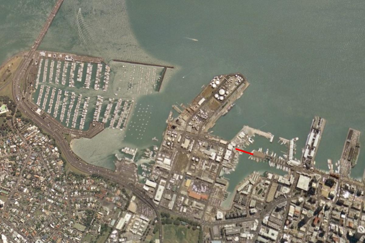 The location of the Wynyard Crossing bridge in the western Auckland waterfront, being constructed in 2011.